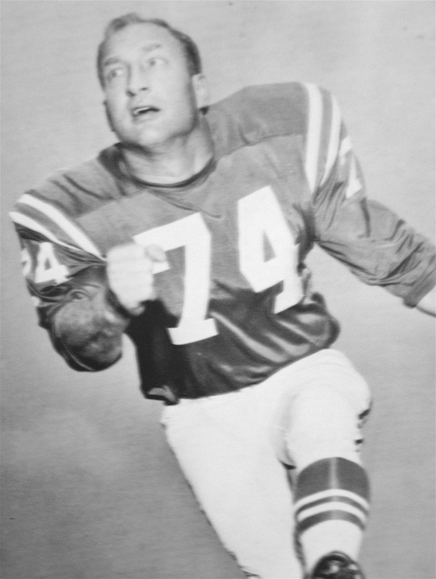 Description = Billy Ray Smith Sr. Picture = Authorized by the author = kusinews